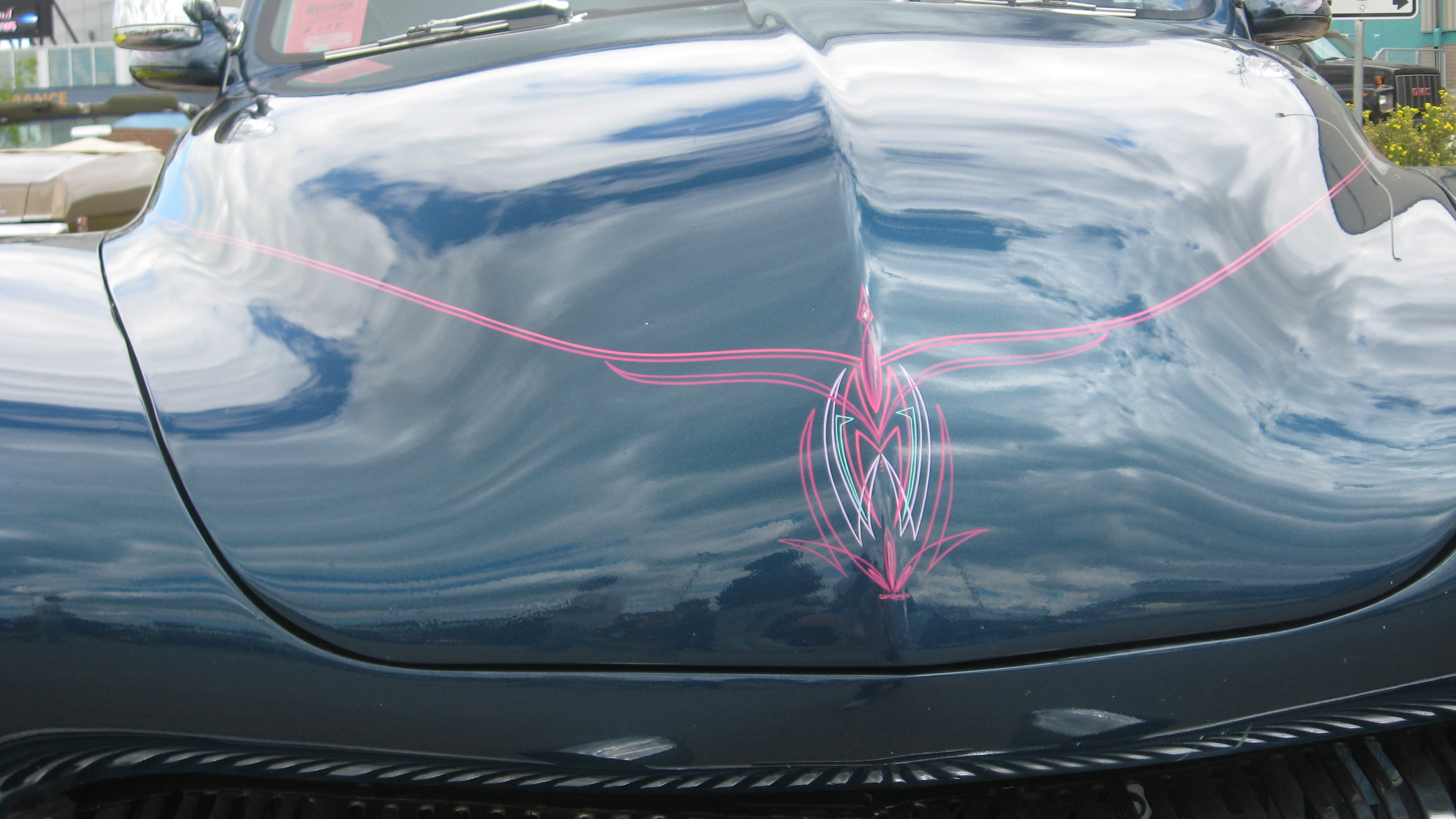 hood pinstriping detail on custom '51 merc hood, shot at local car show/swap meet